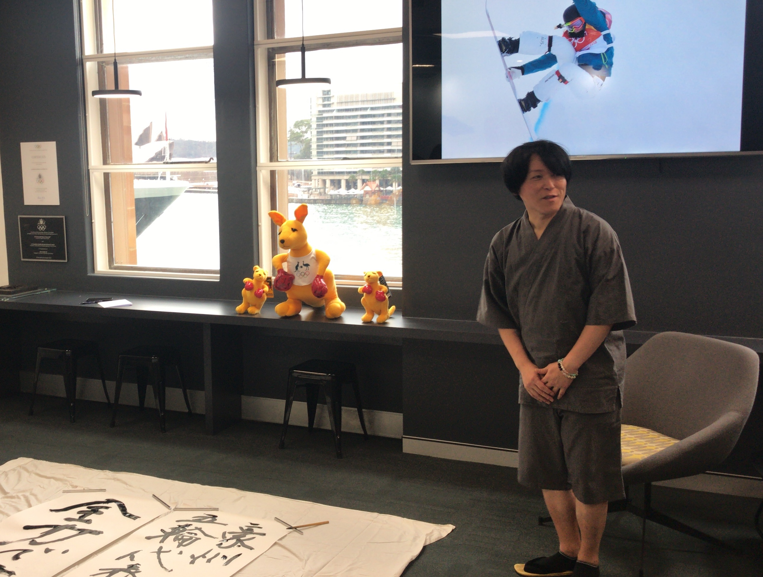 His performance at AOC 9th March 2020.